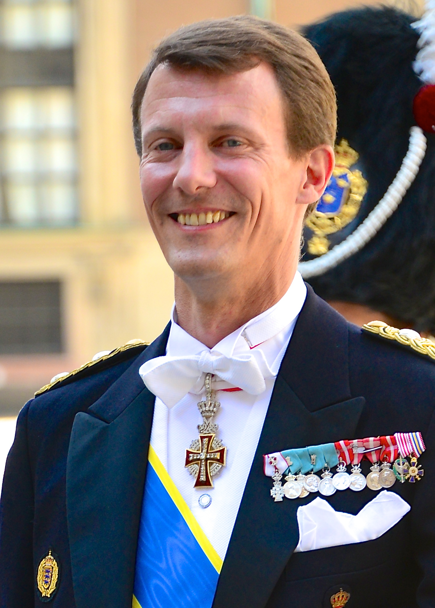 Joachim, Prince of Denmark on the way to the castle church at the Royal Palace in Stockholm before the wedding between Princess Madeleine and Christopher O'Neill June 8, 2013.